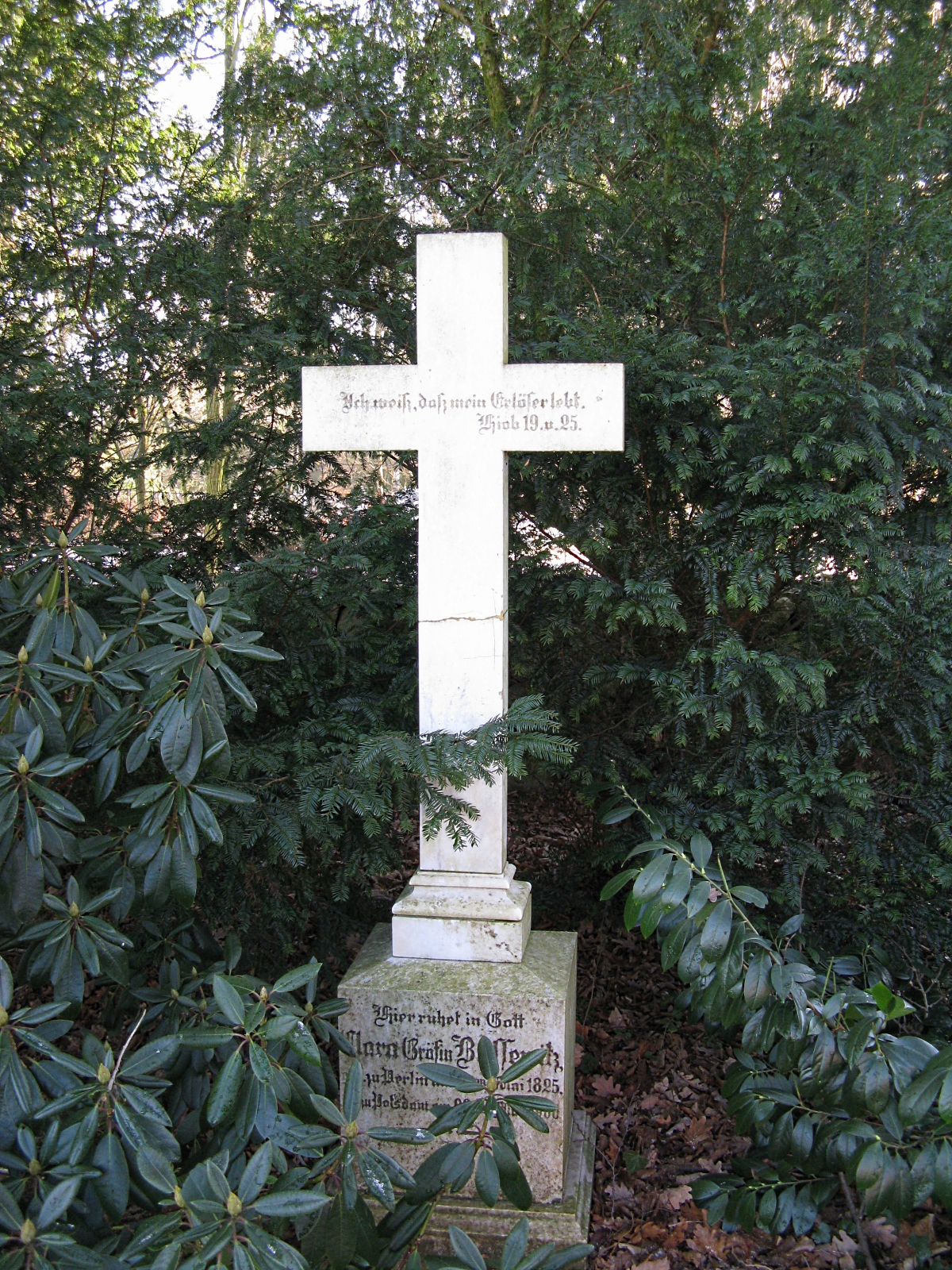 Gravestone at church yard in Perlin, Mecklenburg-Vorpommern, Germany